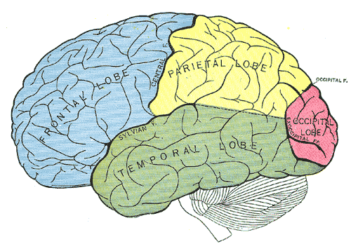 Principal fissures and lobes of the cerebrum viewed laterally.